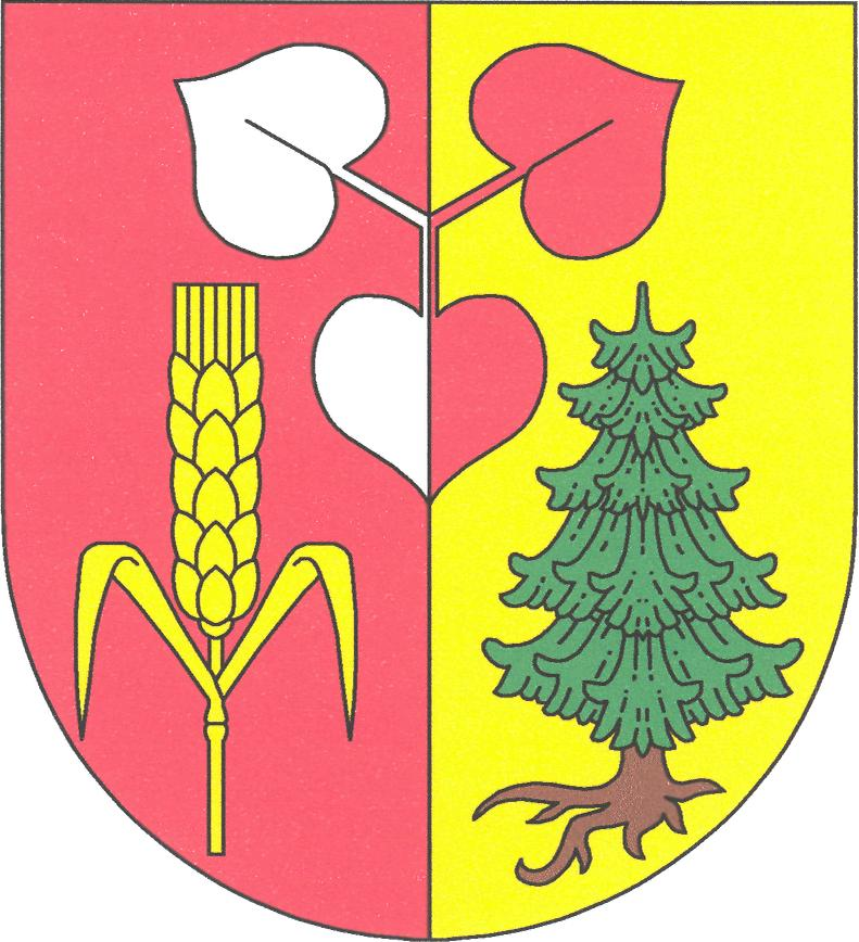 Municipal coat of arms of Tehovec village, Prague-East District, Czech Republic.